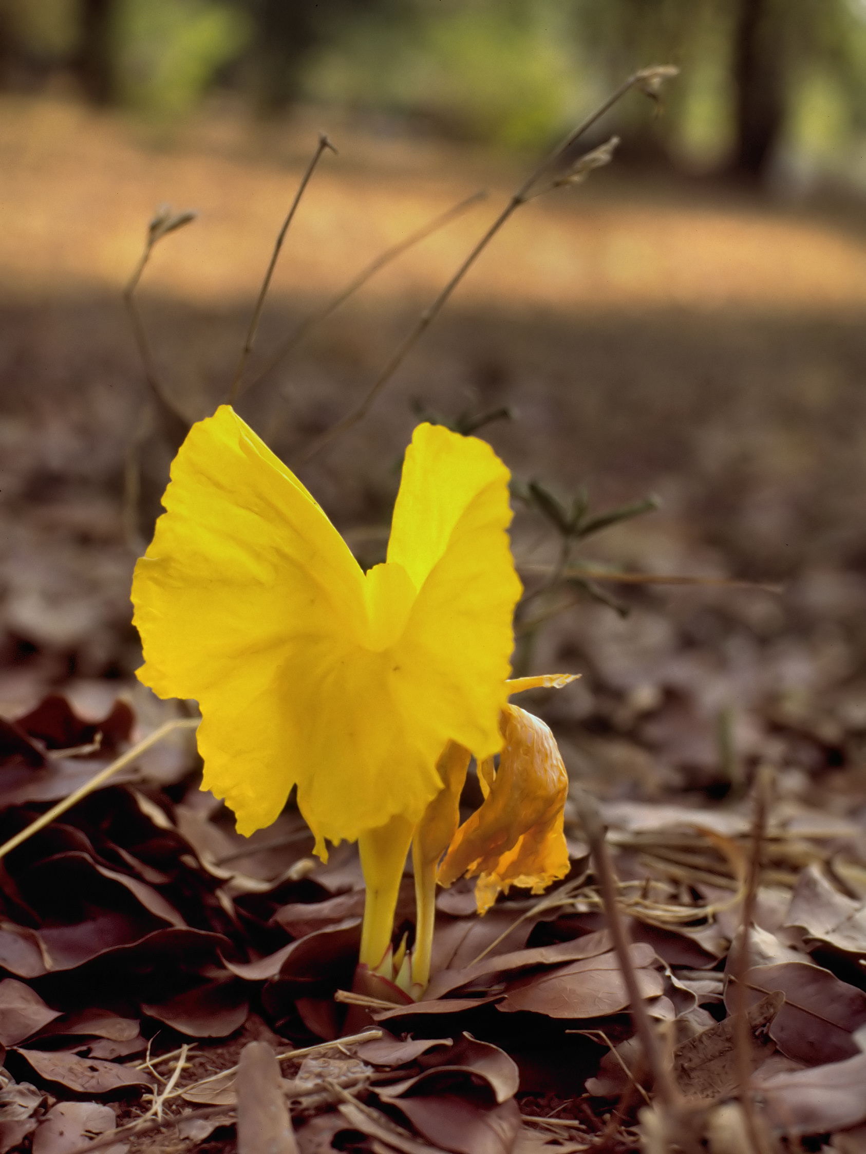 Flowering several weeks before the leafs appear in Chipata, Zambia.Kodak photo CD from slide.